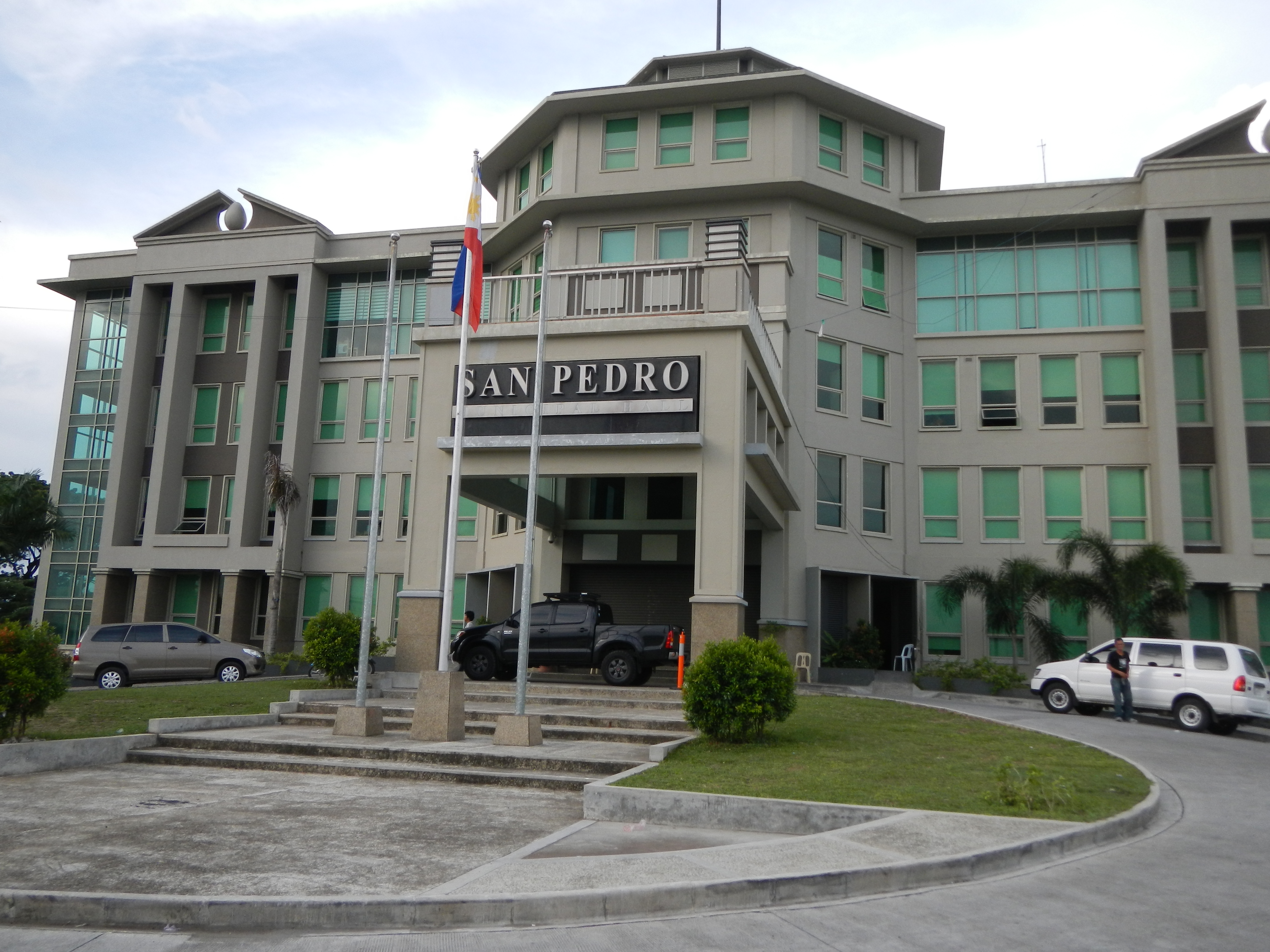 New San Pedro Municipal Hall - San Pedro, Laguna [1] [2] Coordinates: 14°21'43"N 121°3'34"E [3] [4] [5] [6] inaugurated on July 1, 2011, located at Brgy. Poblacion, San Pedro, Laguna. Palace tells Laguna town mayor to vacate office April 9th, 2013 Malacañang ordered Mayor Calixto Cataquiz to vacate per Supreme Court ruling that found Cataquiz, former general manager of Laguna Lake Development Authority (LLDA), guilty of graft. Palace sacks Laguna town mayor San Pedro Vice Mayor Norvic Solidum will replace Cataquiz.---- San Pedro, Laguna [7] San Pedro City, or officially known as the City of San Pedro (Filipino: Lungsod ng San Pedro) is a first class city in the province of Laguna, Philippines is Laguna's gateway to Metro Manila, the latest census, it has a population of 294,310 inhabitants.